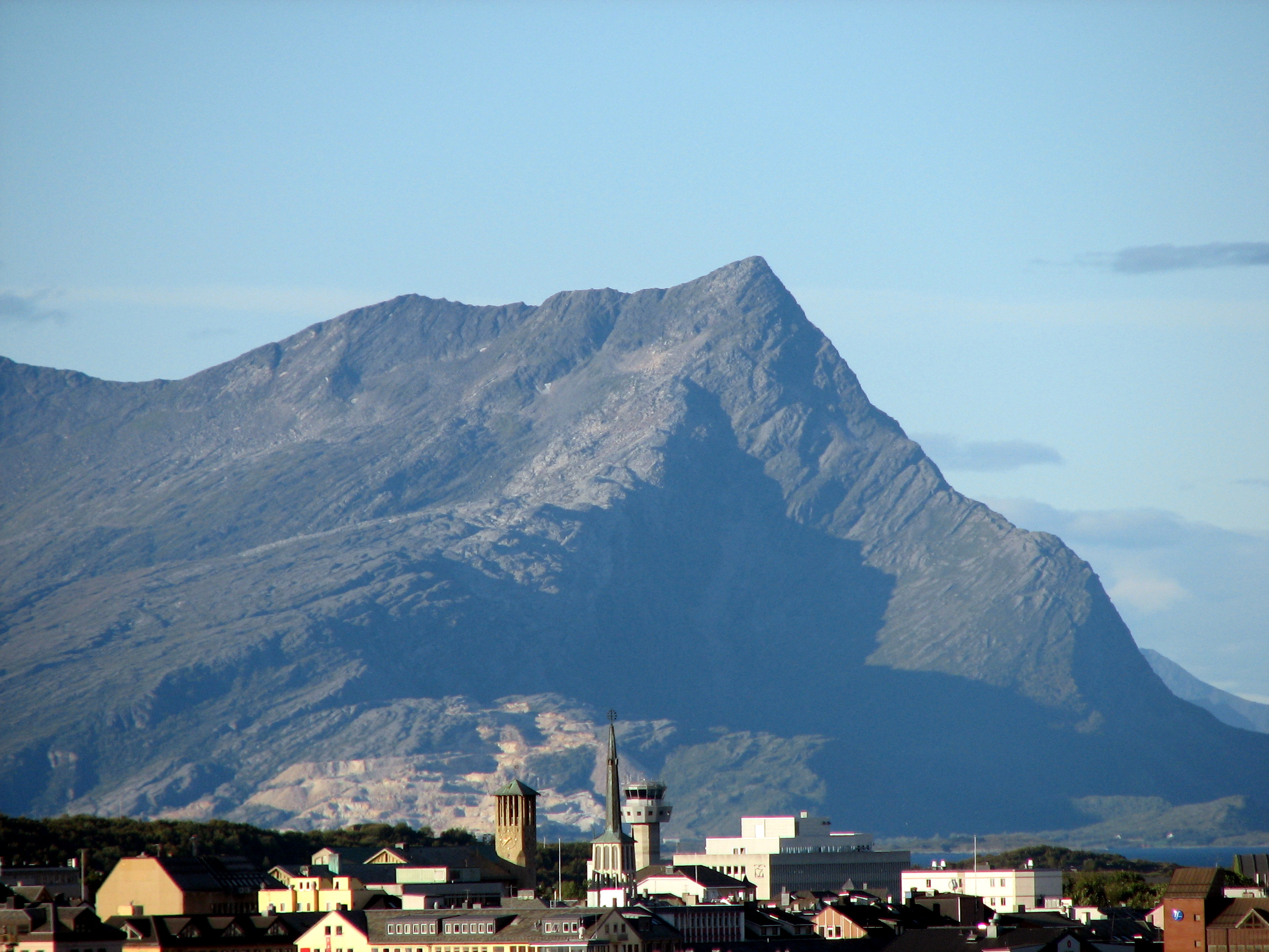 View of the mountain Sandhornet in Gildeskål from the town of Bodø